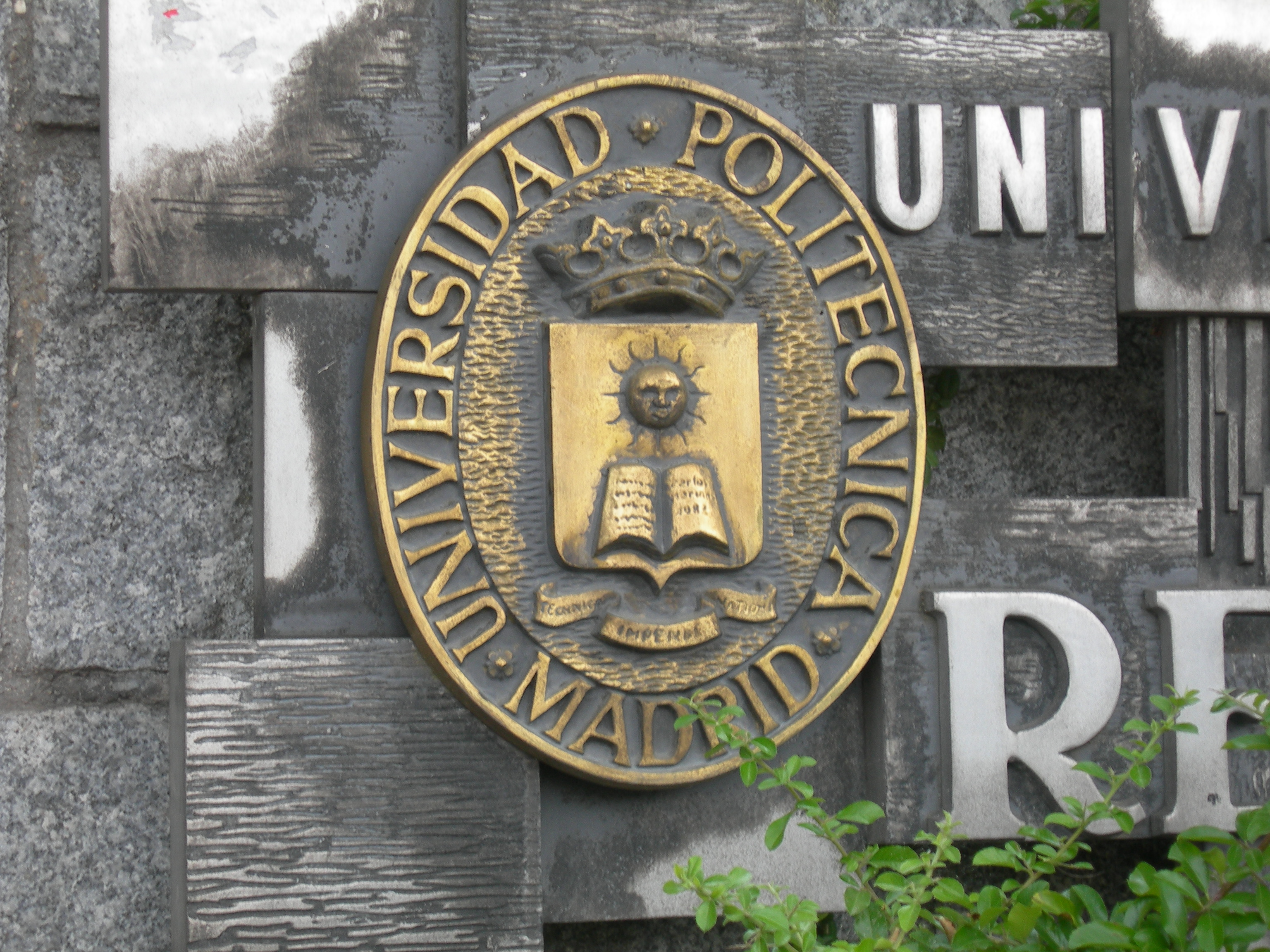 Rectorate of the Technical University of Madrid (UPM), Spain.